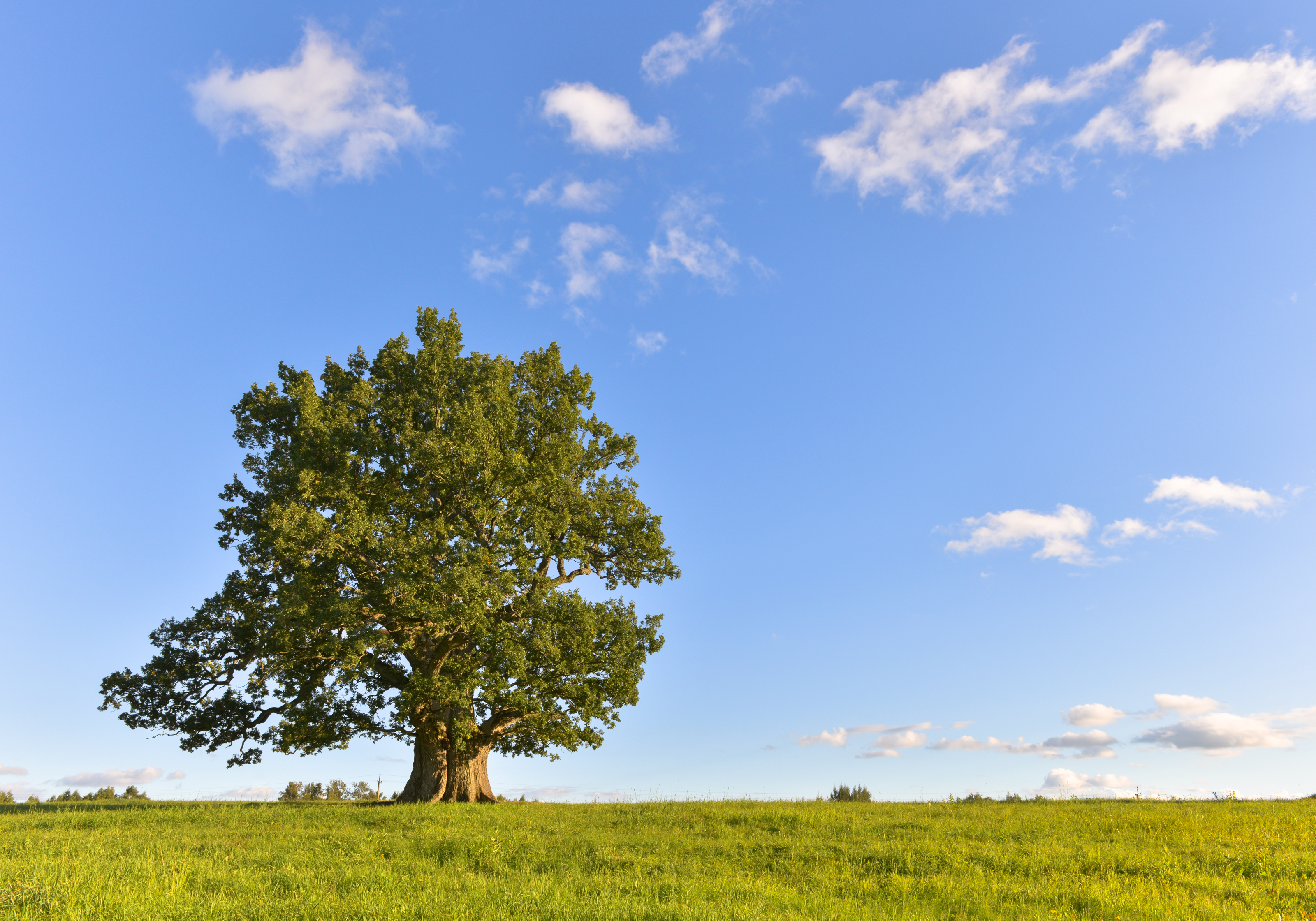 Tamme-Lauri Oak at Urvaste, oldest oak tree in Estonia